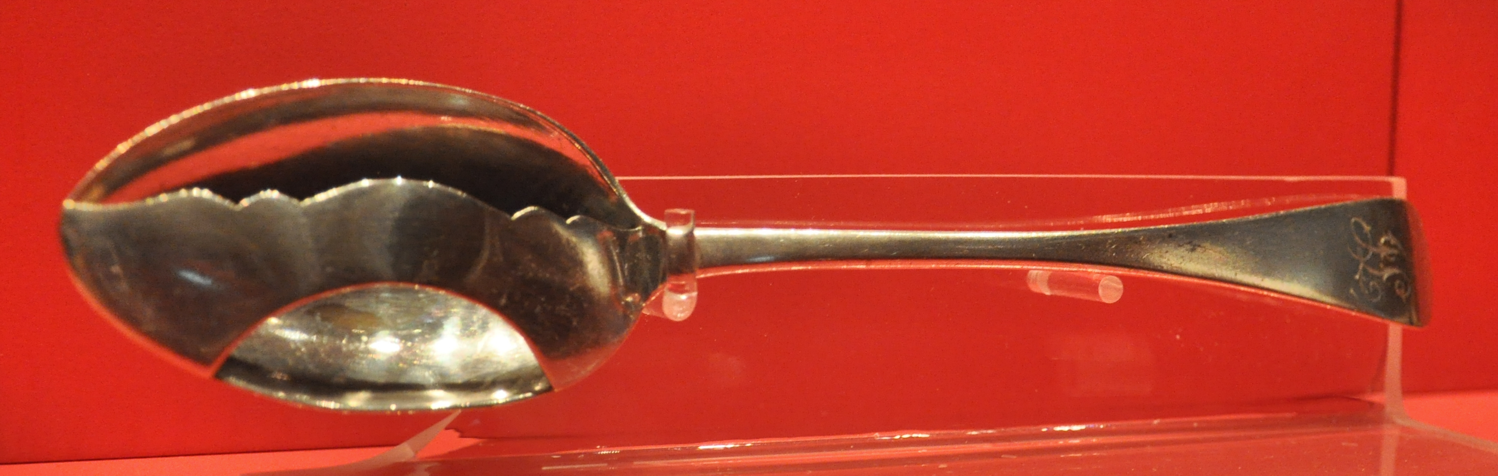 Moustache spoon (silver) to protect one's moustache when eating soup, by John Round & Son Ltd, Sheffield, 1904 Victoria and Albert Museum, London, museum no. M.18-2000 (Link)